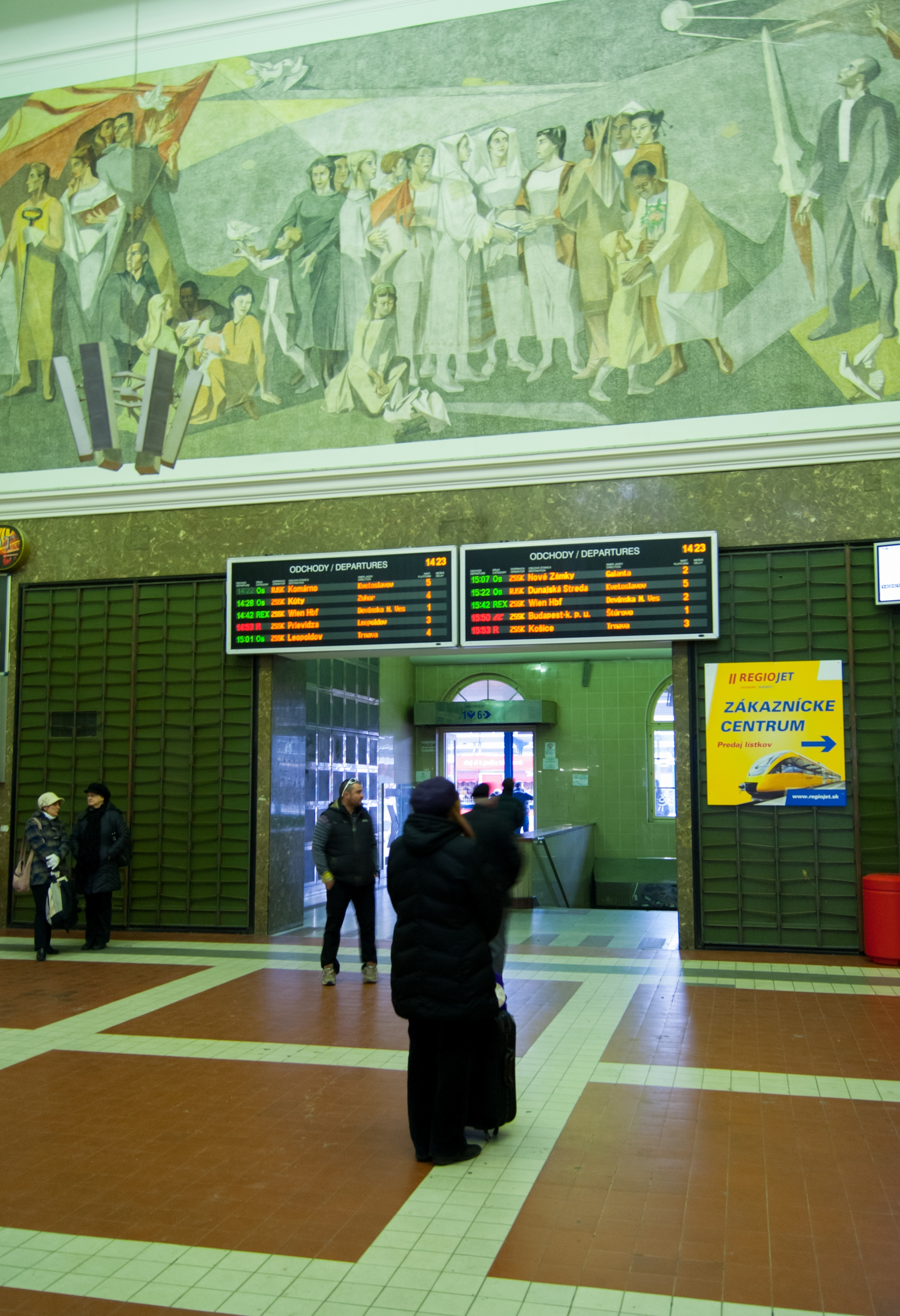 Bratislava central railway station.